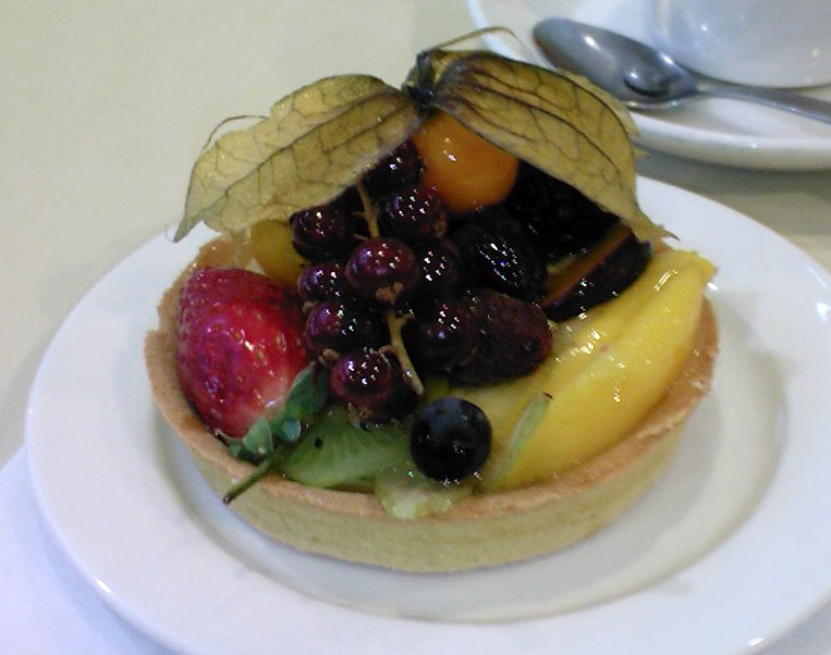 Fruit tart from café at John Lewis, Cheadle